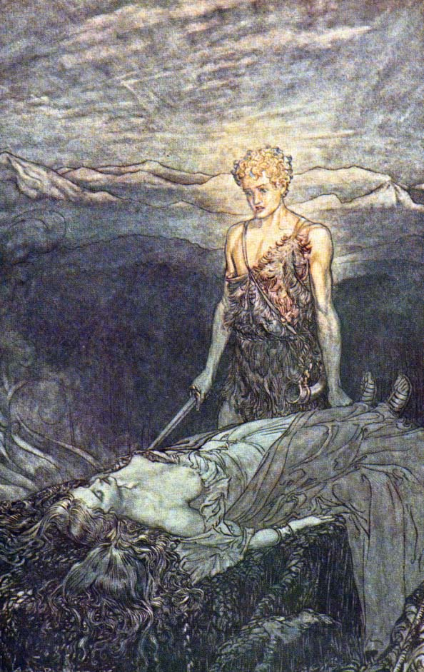 Siegfried comes upon the sleeping Brünnhilde.